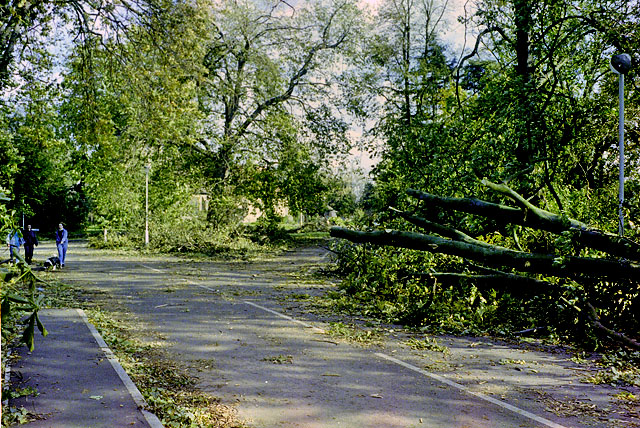 After the great storm of the previous night, fallen trees have been partly cleared in Stump Lane, Springfield.